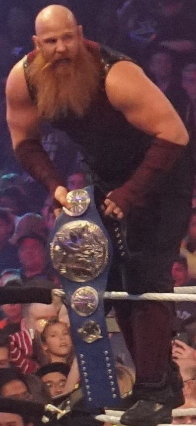 Erick Rowan & Luke Harper at WrestleMania 34 after winning the WWE SmackDown Tag Team Championship.